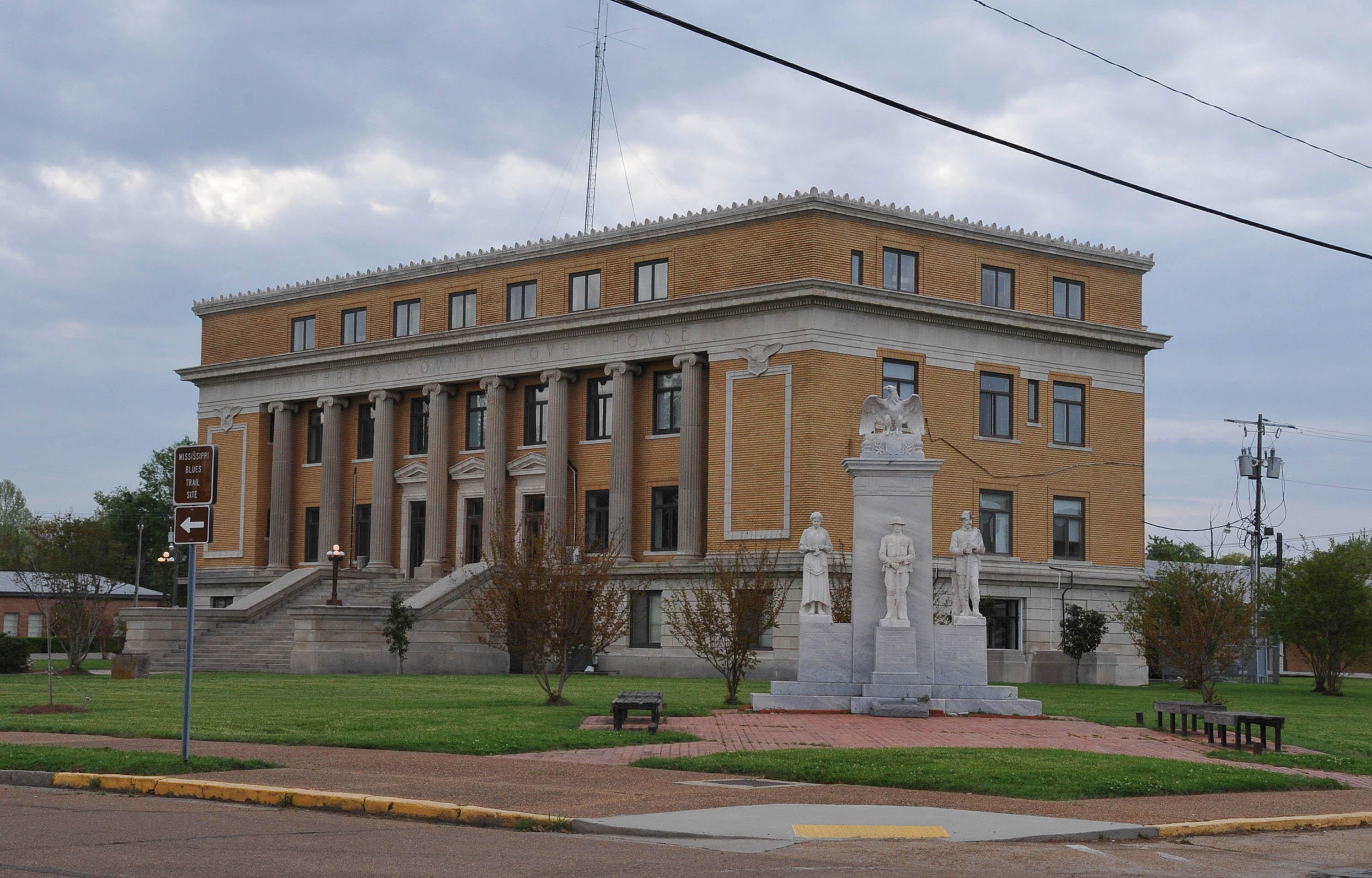 BUILT DURING THE 1920’S IN BEAUX ARTS STYLE